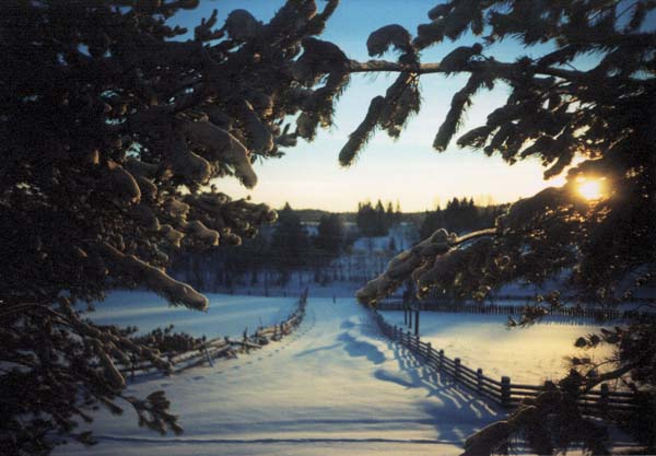 Winter in Vologda oblast, Logduz, vologda Oblast, by Shargina A.E.